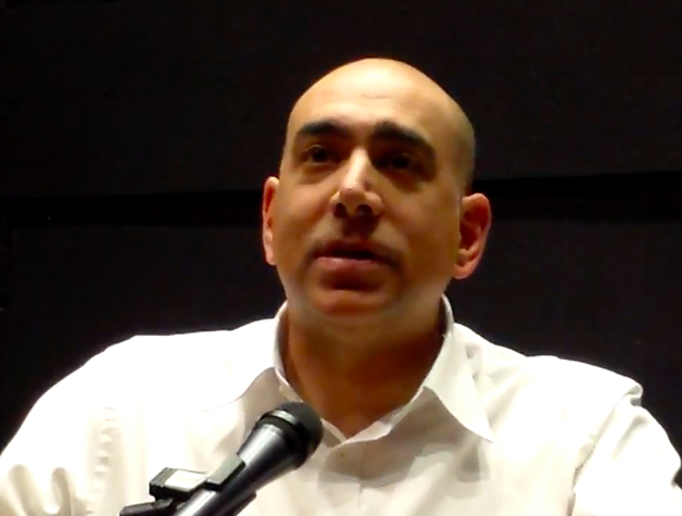 Journalist Ali Abunimah speaking at Hampshire College in 2014